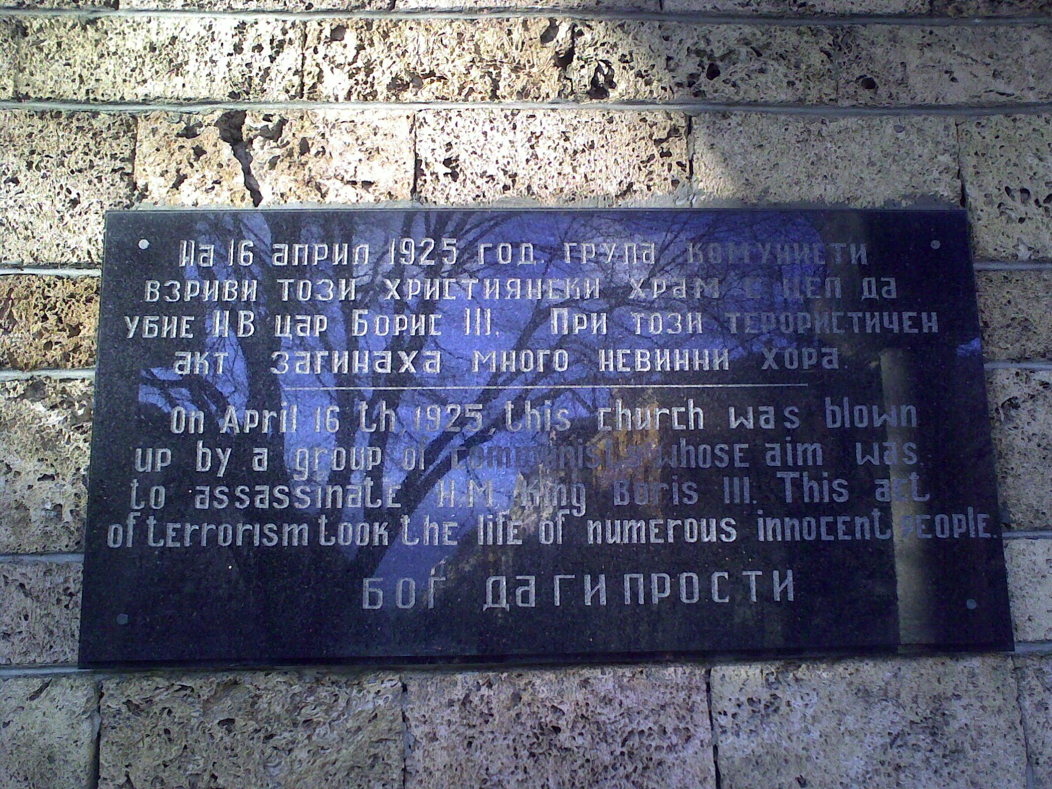 Sofia: St. Nedelya Cathedral